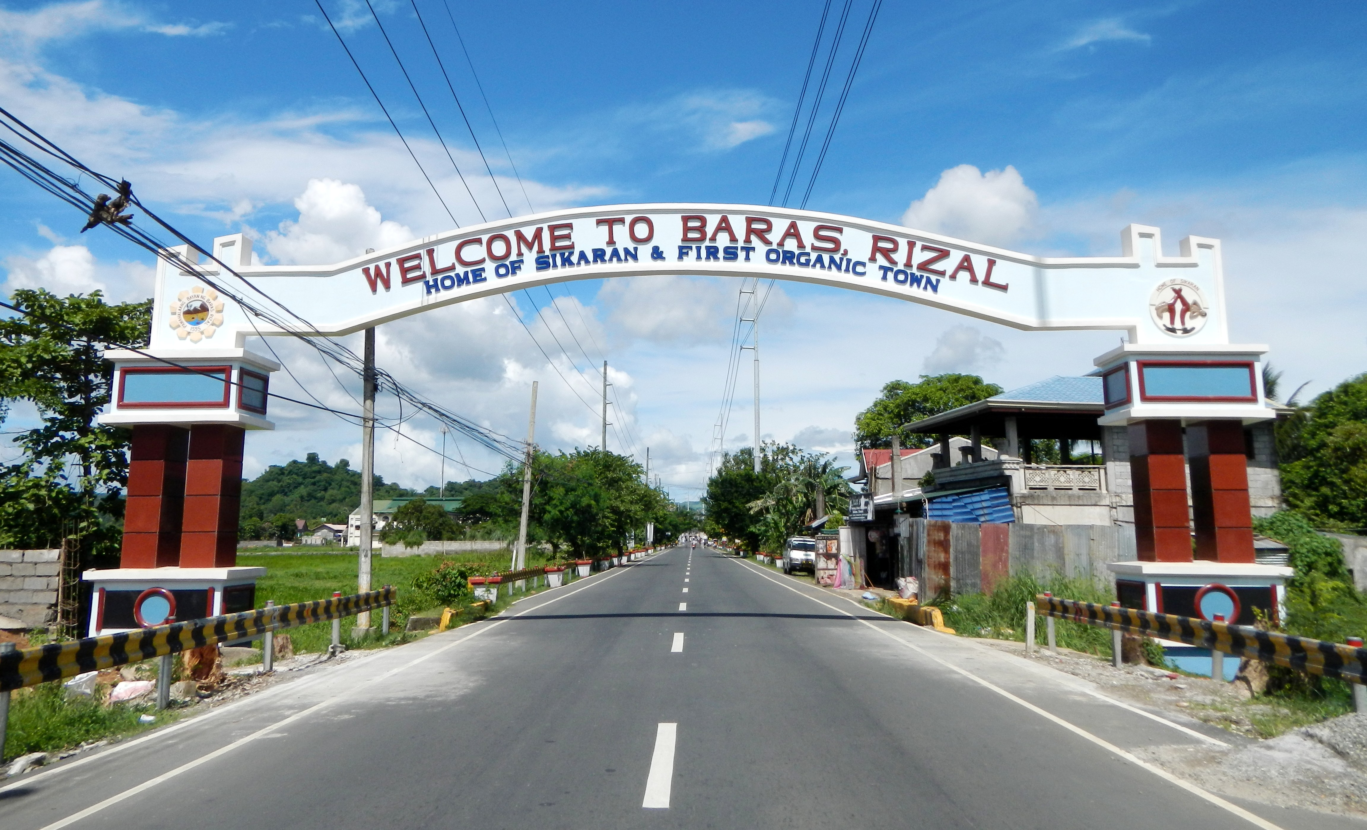 Baras Arch - Baras, Rizal [1] (Welcome - the Old and the New) at Baras/Morong border or boundary barangays, along the National Road - along the C. San Juan St. cor. National Highway street sign - Coordinates: 14°31'27"N 121°15'28"E[2] - Morong, Rizal[3] is a first class municipality in the province of Rizal, Philippines. According to the latest census, it has a population of 50,538 inhabitants in 8,988 households. A popular attraction is Spanish-era St. Jerome's Parish Church. The town is also known for featuring the balaw-balaw side dish. Morong is politically subdivided into 8 barangays with 3 situated in the poblacion.